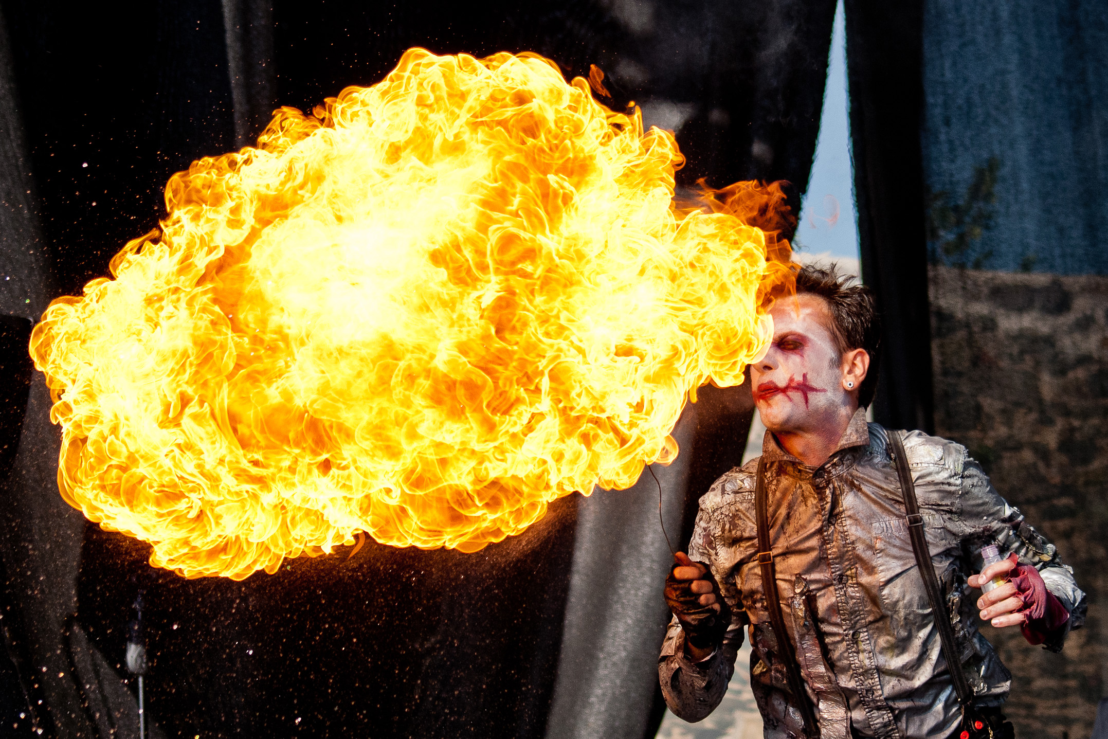 This photo was made in cooperation with CASTLE PARTY PRODUCTIONS in Bolków (webpage)